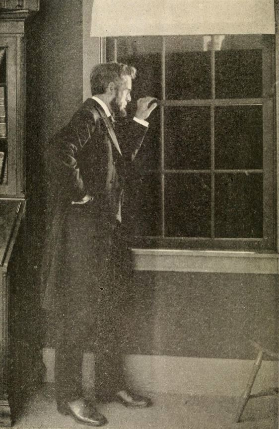 Still from the American Civil War film The Crisis (1916) with Sam D. Drane as Abraham Lincoln, facing the front piece to the 1916 edition of American novelist Winston Churchill's book. Caption: "The Man of Sorrows."